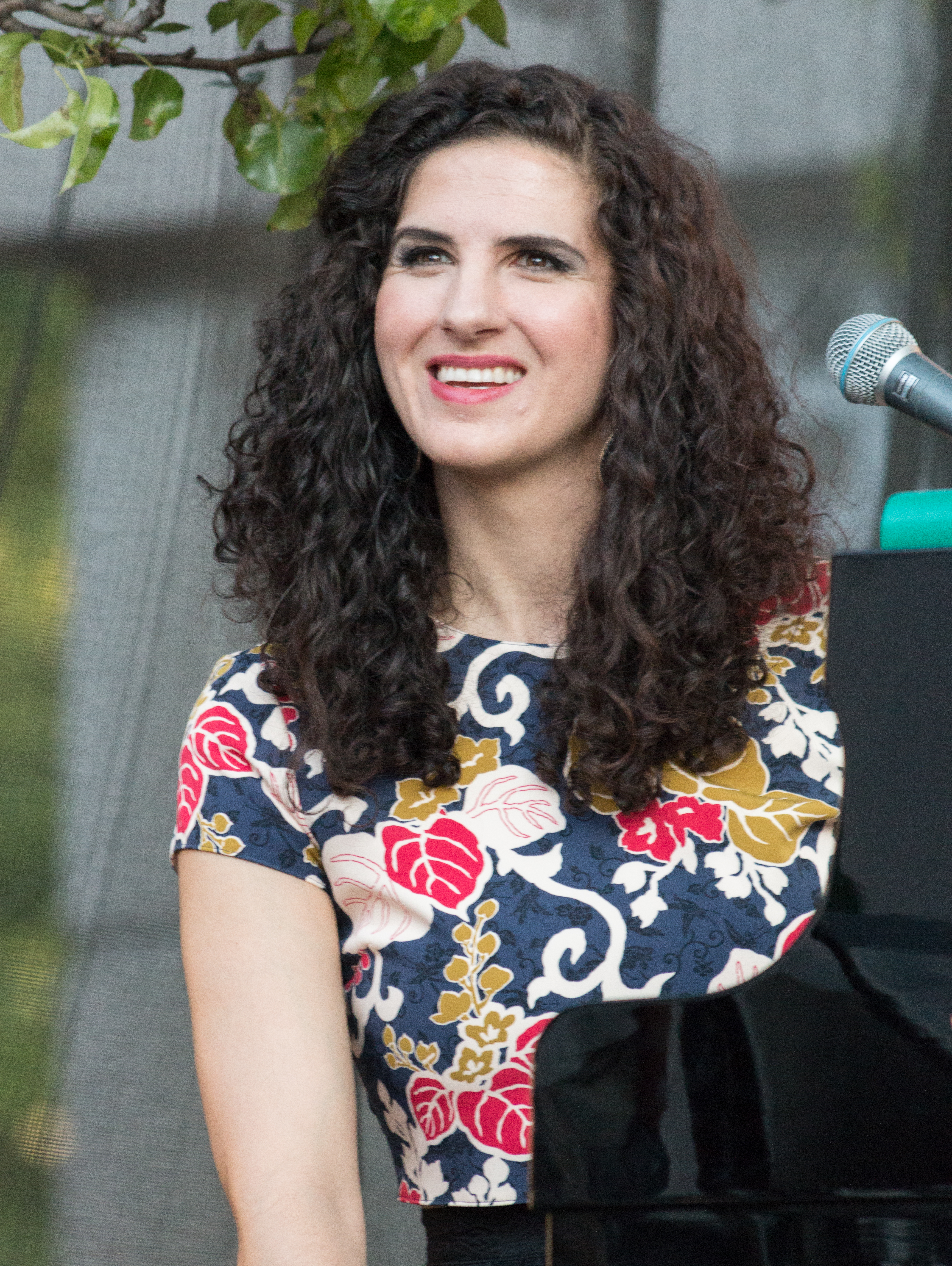 Laila Biali pre-performance at the 2016 Burlington Sound of Music Festival